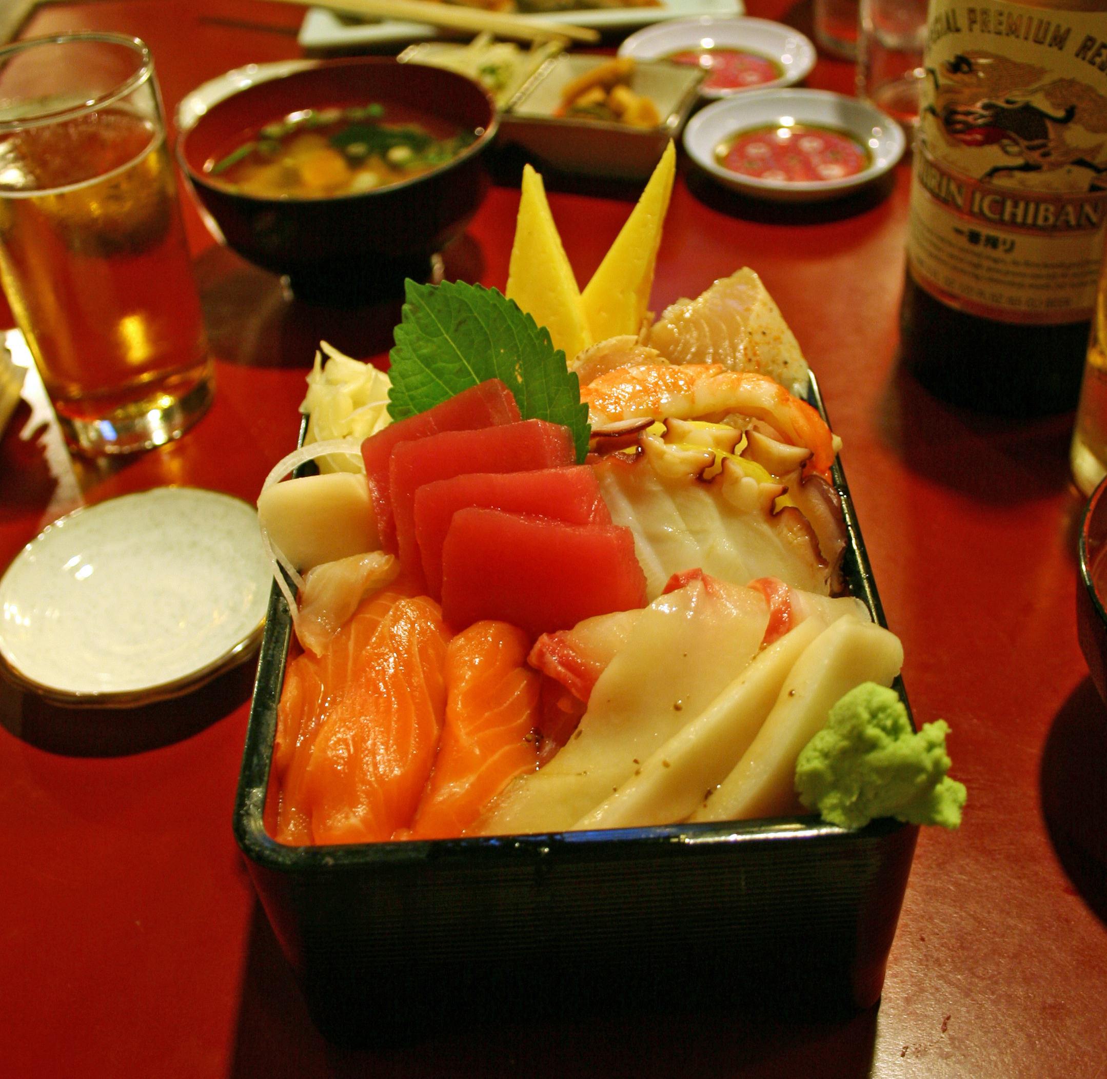 Good Times. Pretty decent quality fish.